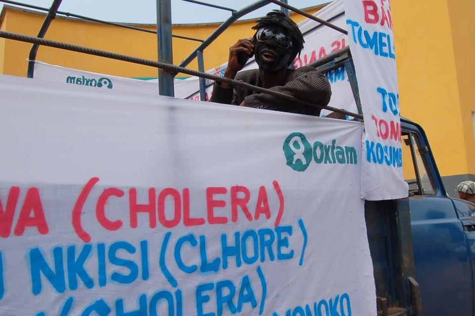 Oxfam's public health team has launched mass awareness-raising campaigns in Mbandaka and the surrounding area, to educate people about how to prevent the spread of cholera. A local actor rides on this mobile float, which drives through communities to broadcast information. Photo: Oxfam